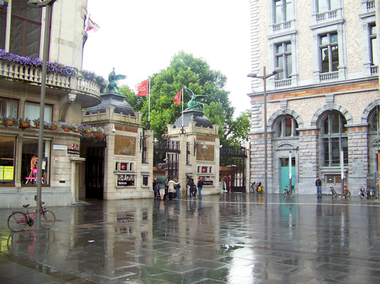 Entrance of the Antwerp Zoo